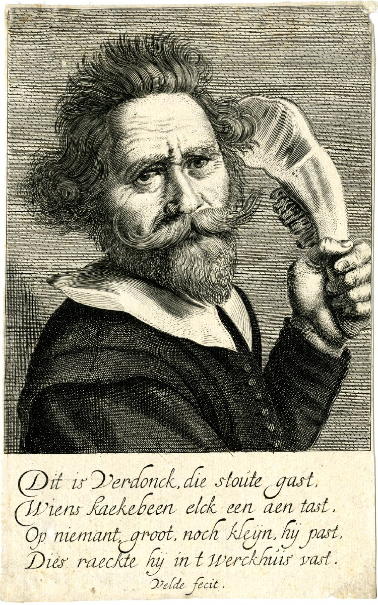 Engraved portrait of Pieter Verdonck (as Samson with the jawbone) after Frans Hals; Poem inscription "Dit is Verdonck, die stoute gast, / Wiens kaekebeen elck een aen tast, / Op niemant, groot, noch kleyn, hy past, / Dies raeckte hy in t Werckhuis vast." and signed below "Velde fecit".